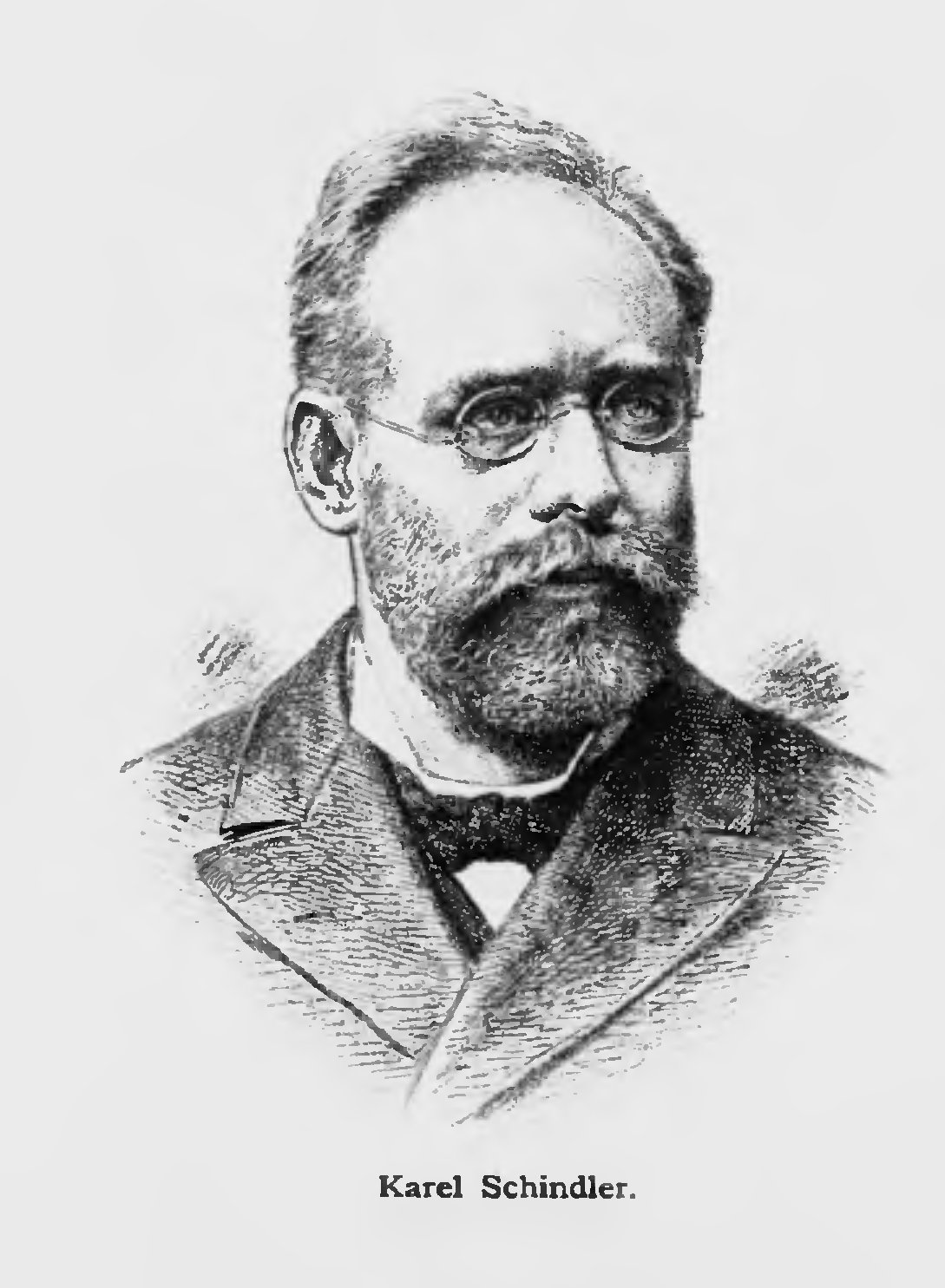 Portrait of Karel Schindler (1834-1905), Czech forestry expert and official.